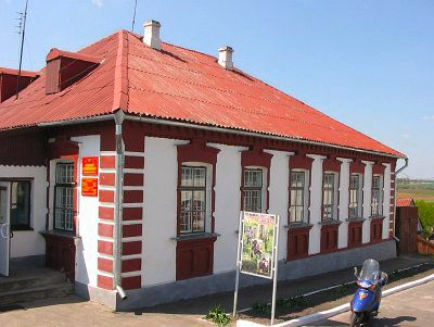 Военкомат, ранее здание старой еврейской школы